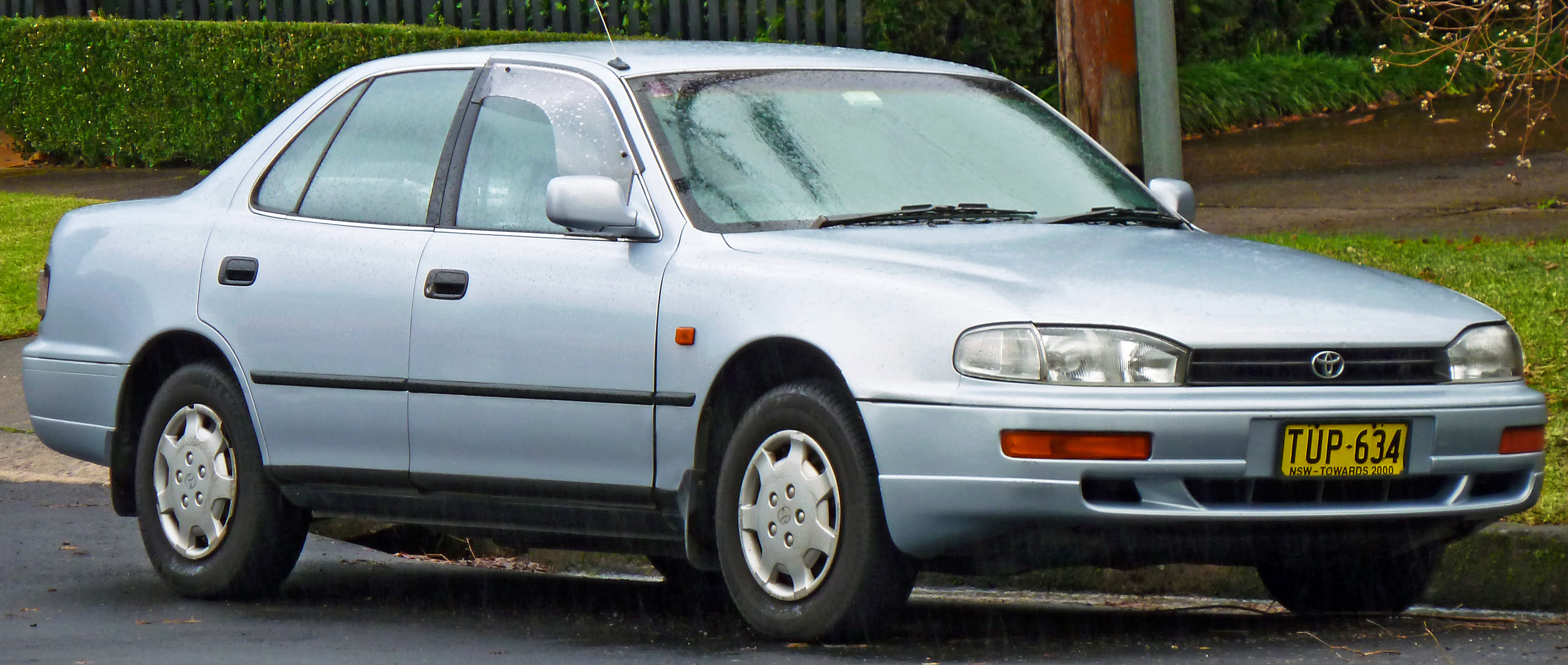 1995 Toyota Camry (SDV10) CSX sedan. Photographed in Lindfield, New South Wales, Australia.